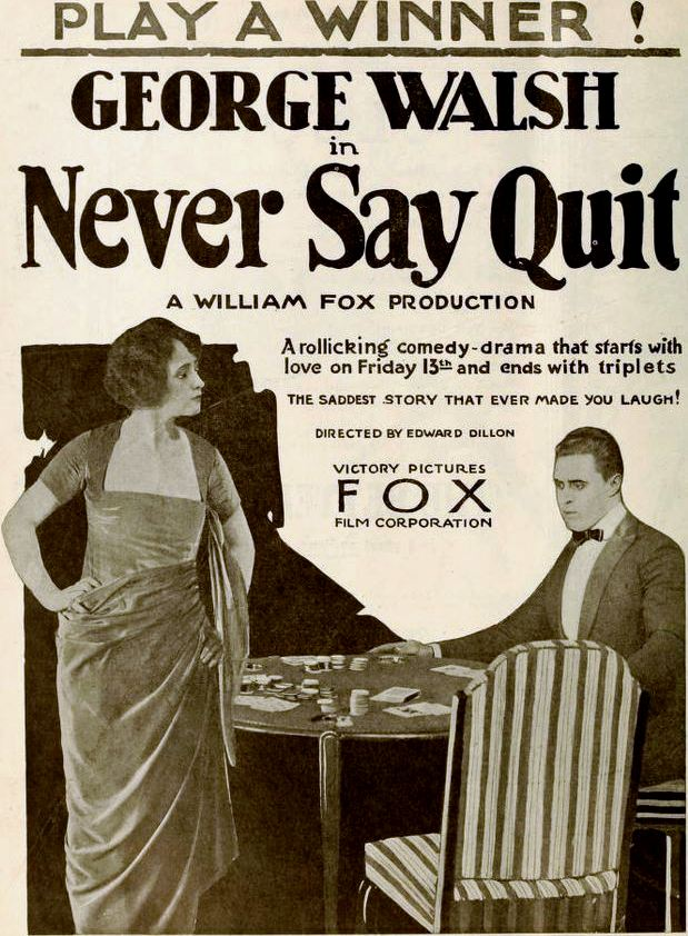 Ad for the American film Never Say Quit (1919) with George Walsh and Florence Dixon, on page 1286 of the March 8, 1919 Moving Picture World.